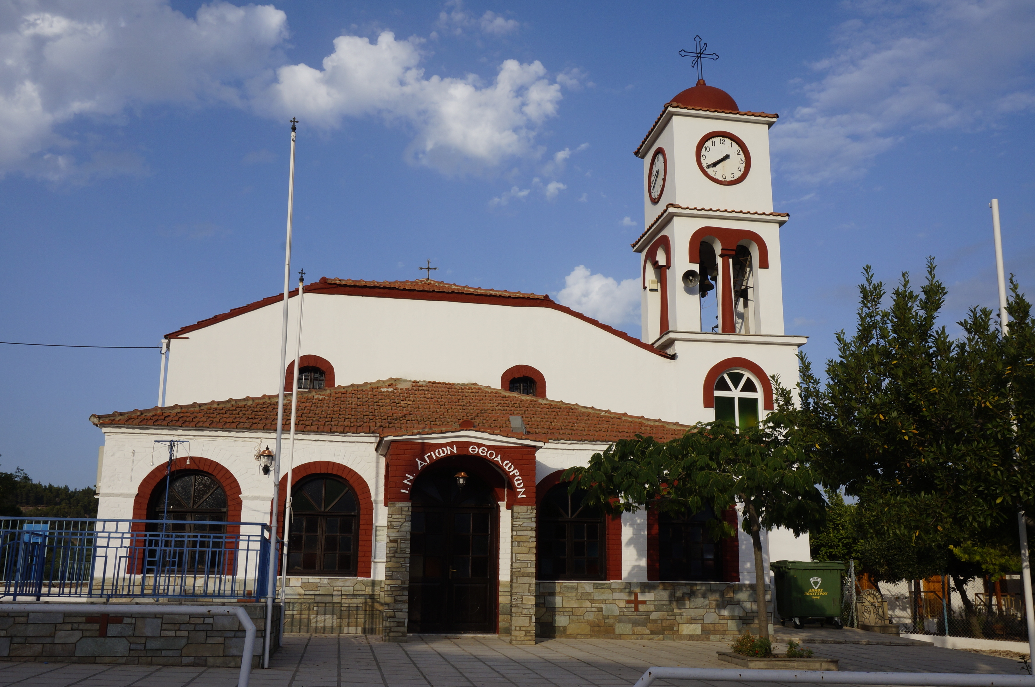 Church of Agii Theodori Facade, Yerakini, Chalkidiki, Central Macedonia, Greece, Jun 2014